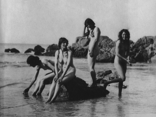 Margery, Brynhild, Noel and Daphne Olivier bathing in Cornwall in 1914